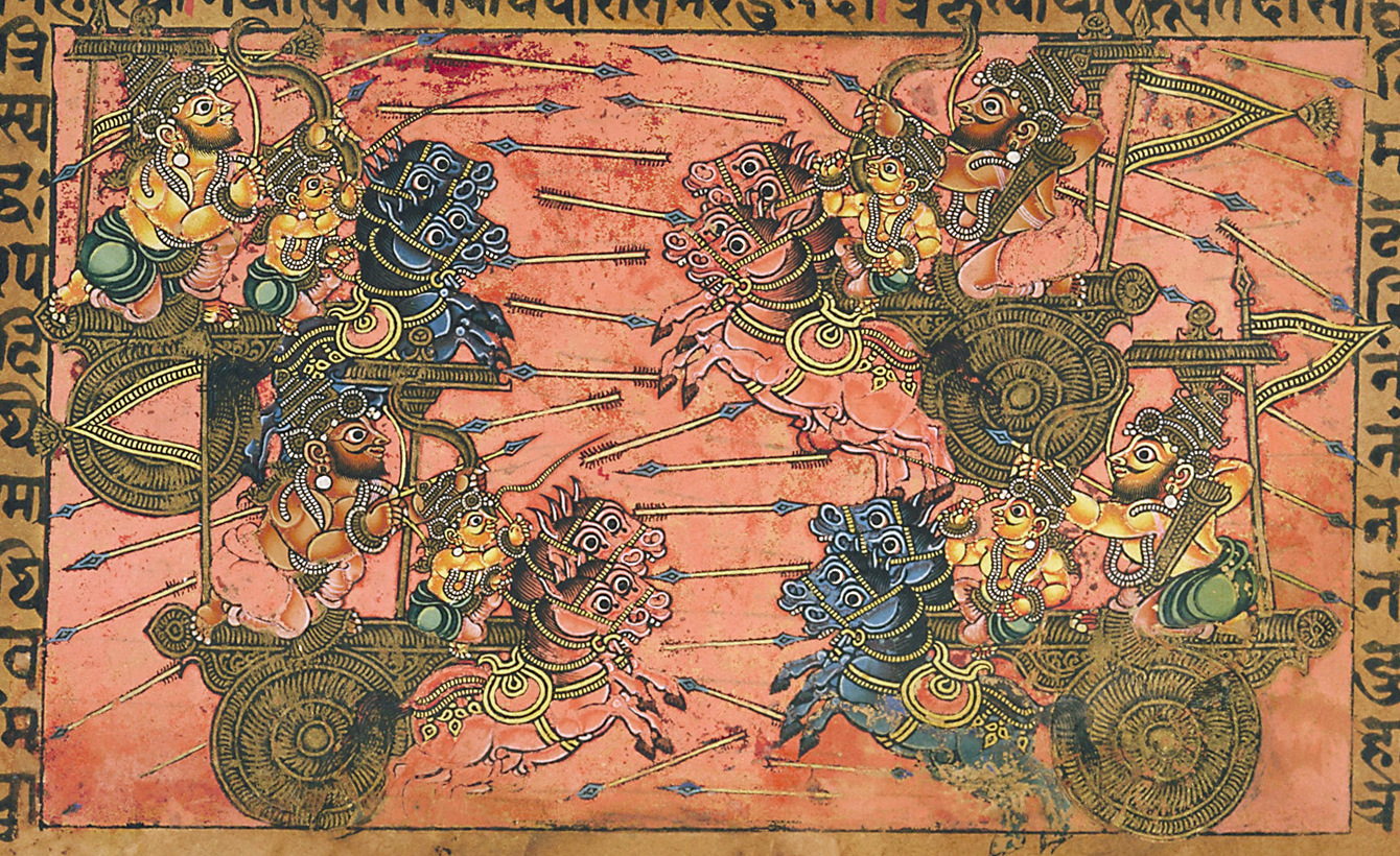 "Battle Scene Between Kripa and Shikhandi from a Mahabharata. This charged scene is from the Mahabharata Great Story of the Bharatas, a sacred Hindu epic of ancient India that narrates the great war between two related clans, the Pandavas and the Kauravas. The battle scene gains vigor from the forcefully drawn figures as well as the myriad arrows activating the salmon-colored ground. "